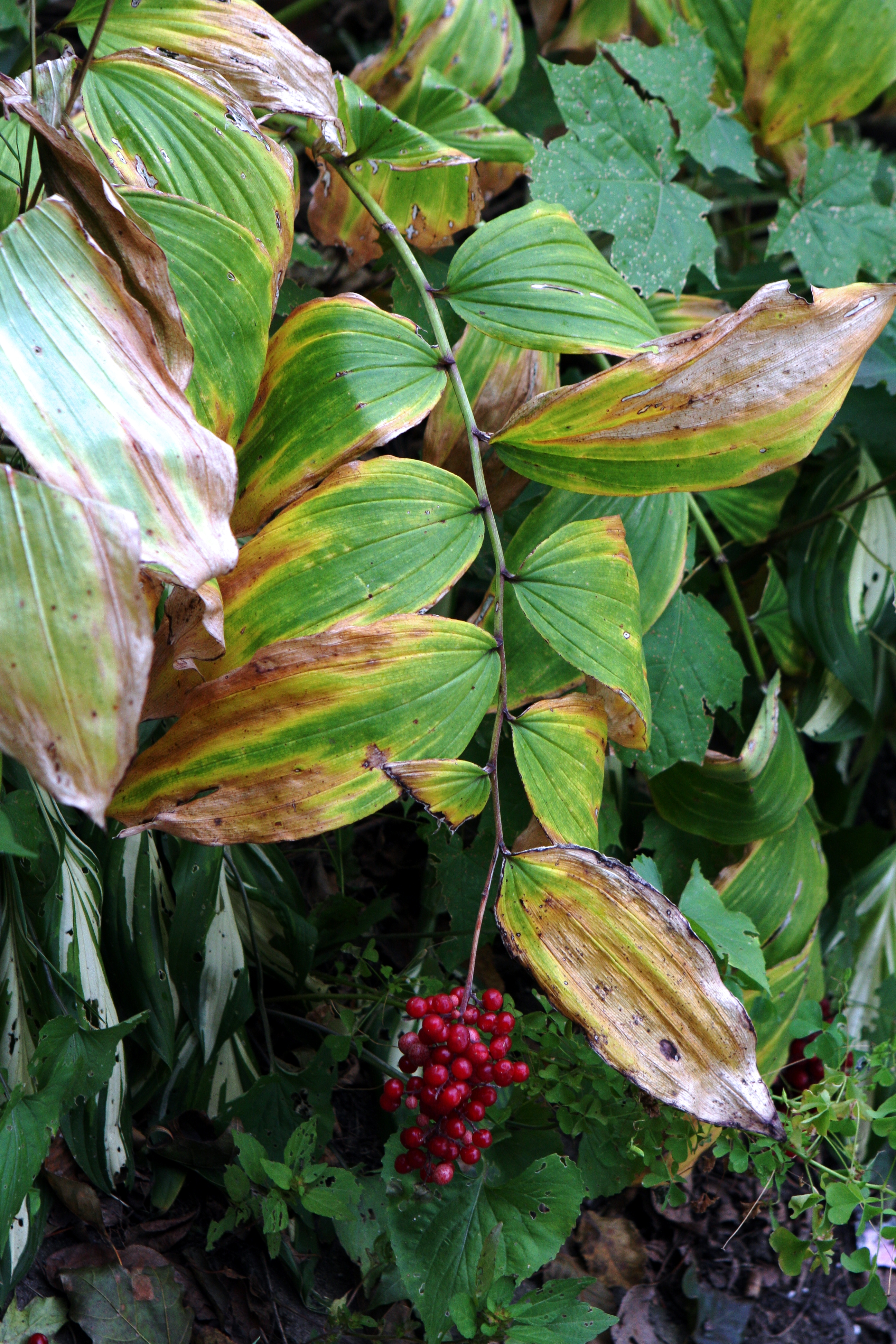 Maianthemum racemosum plant showing ripe fruit in late fall.